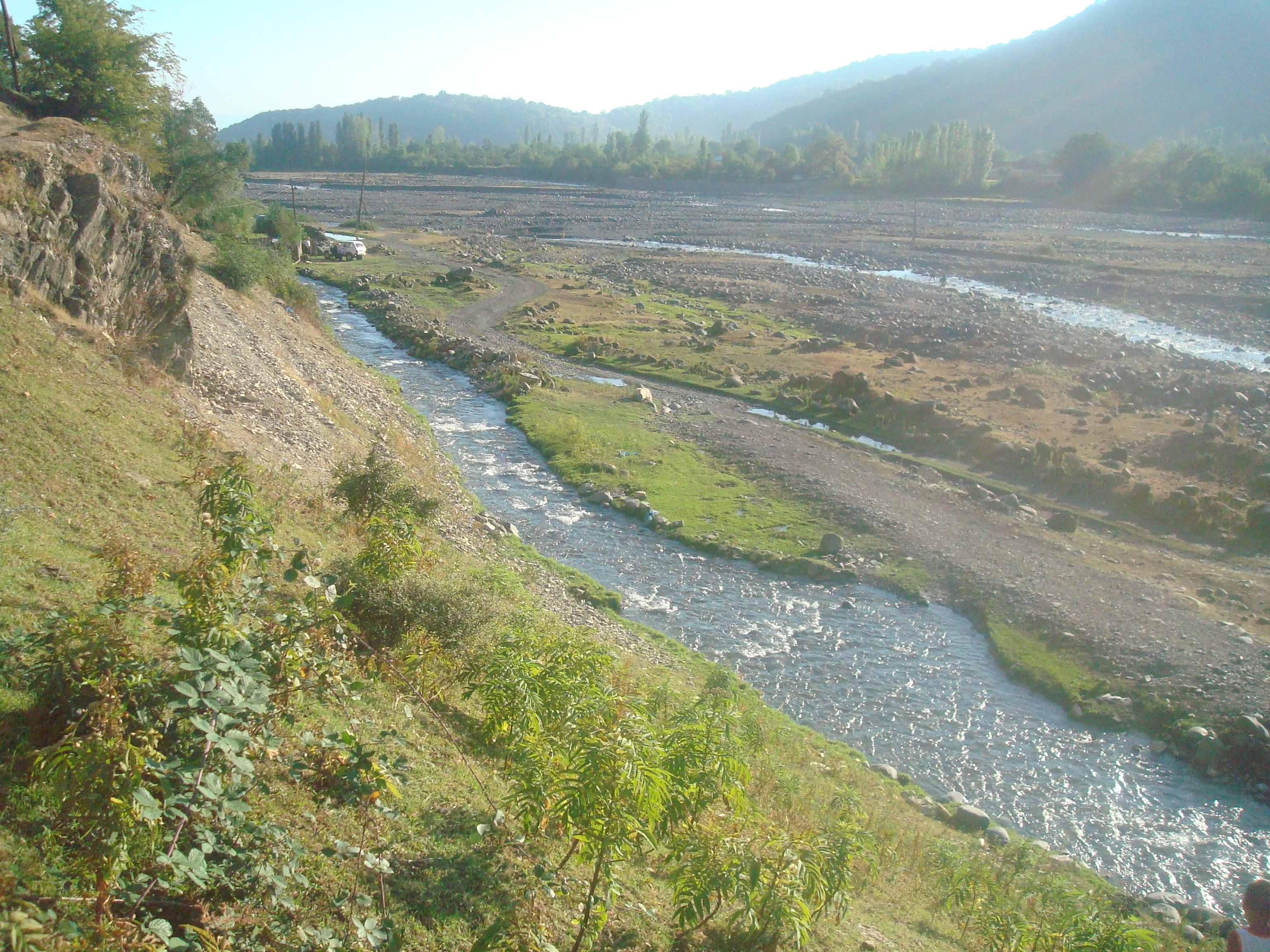 Nature of Azerbaijan